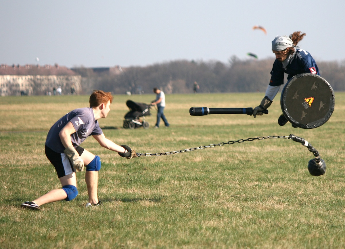 jump over chain